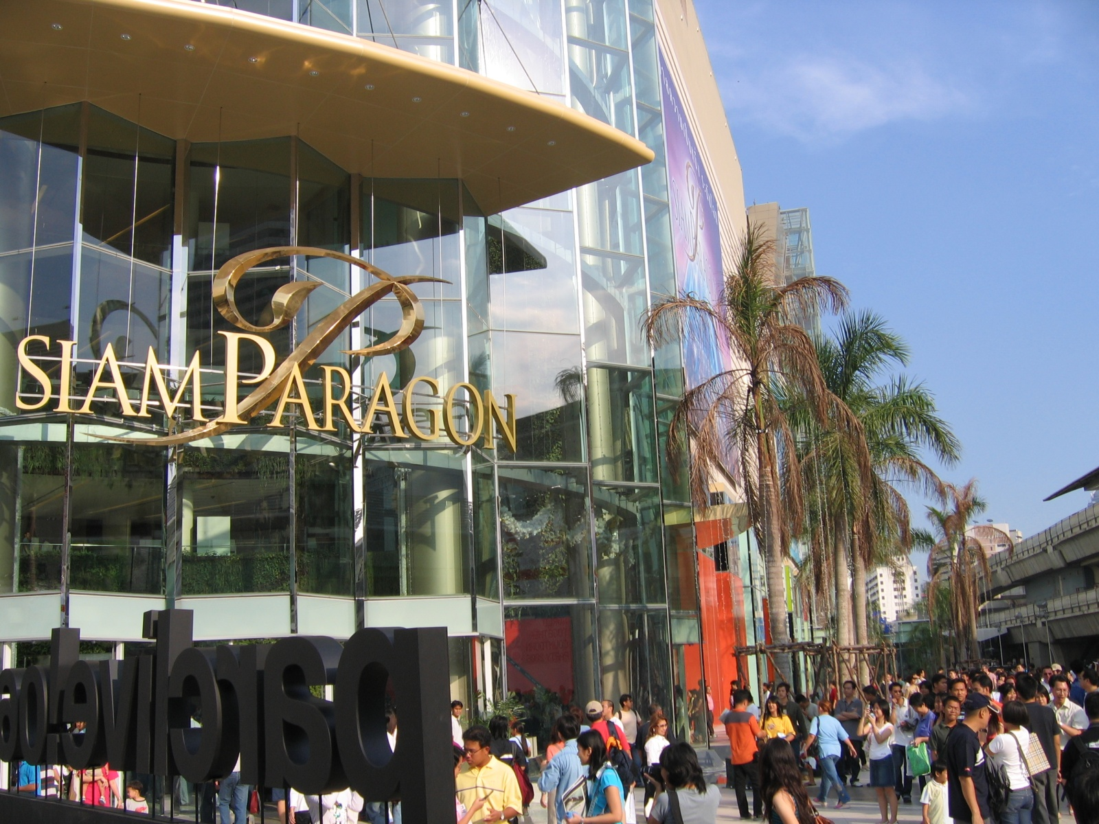 Siam Paragon, a famous shopping center and department store in Pathum Wan District, Bangkok. Many people shown up for the Christmas and New Year decorations. It was also a site of New Year countdown (named parclive!06).